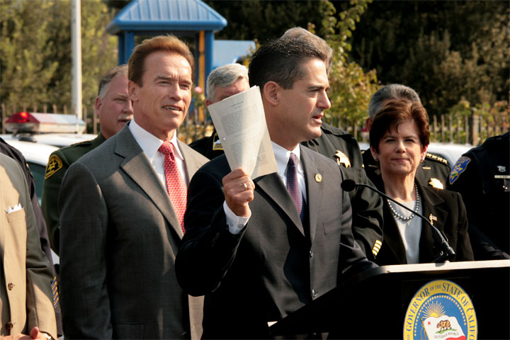 Todd Spitzer, Gov Schwarzenegger, re: Stopping of early release of California inmates